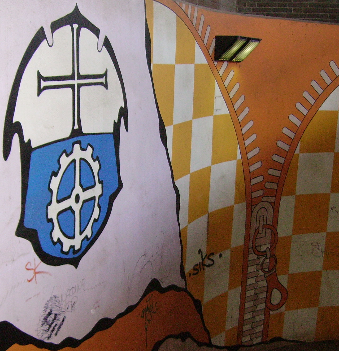 train station of Limburgerhof in Germany